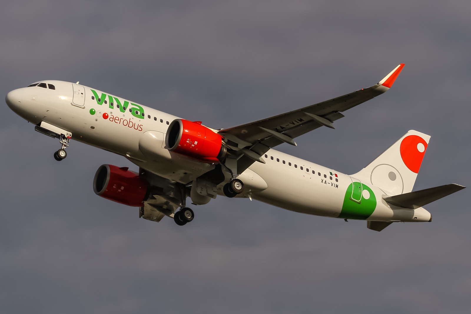 XA-VIM Viva Aerobus Airbus A320-271N - ferry flight XFW-KEF-BGR-MTY@ Airbus factory Hamburg Finkenwerder (XFW / EDHI) / 09.10.2018